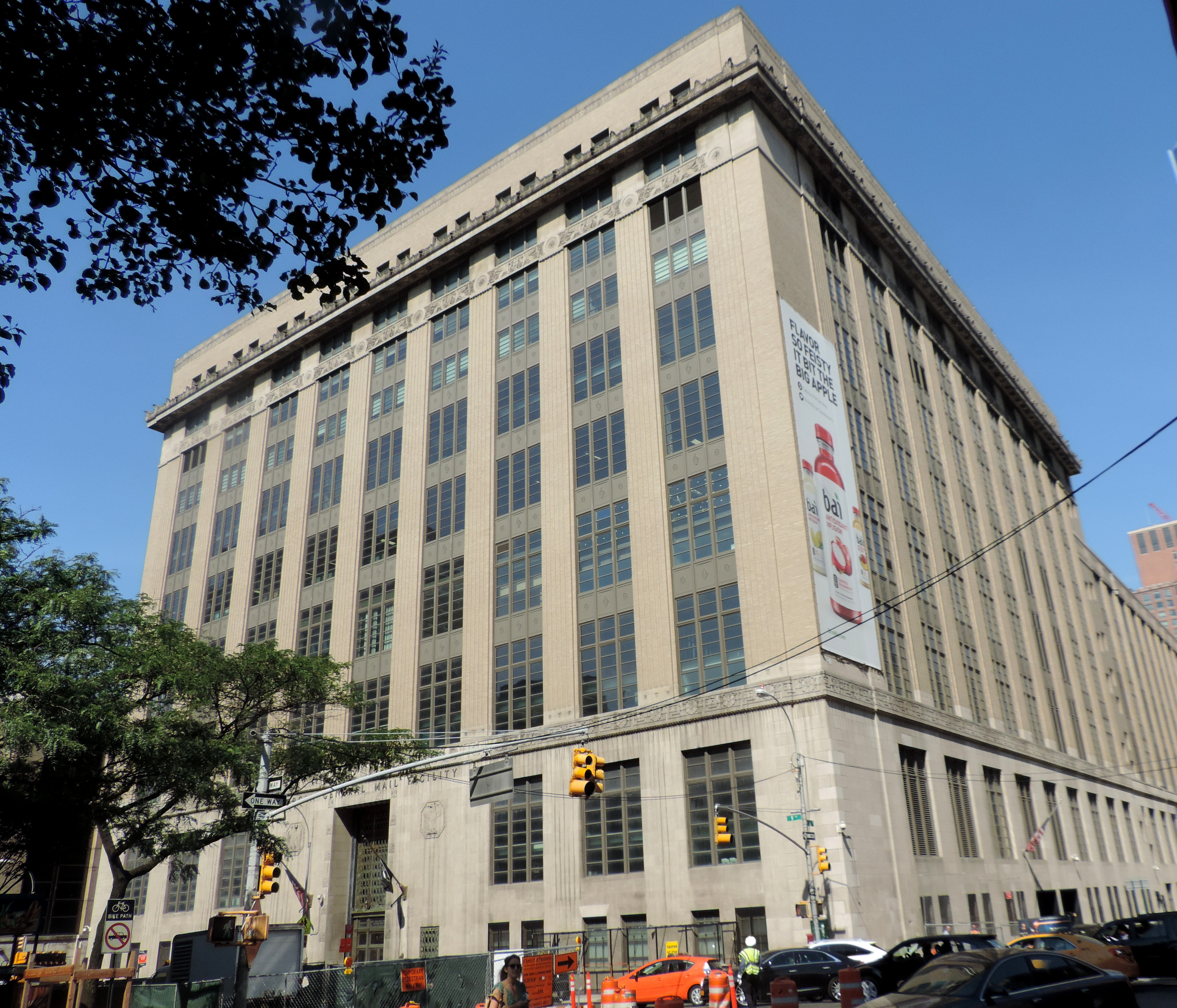 Looking west at Morgan Annex PO on a sunny summer morning. EXIF location is one block south due to photographer's error.